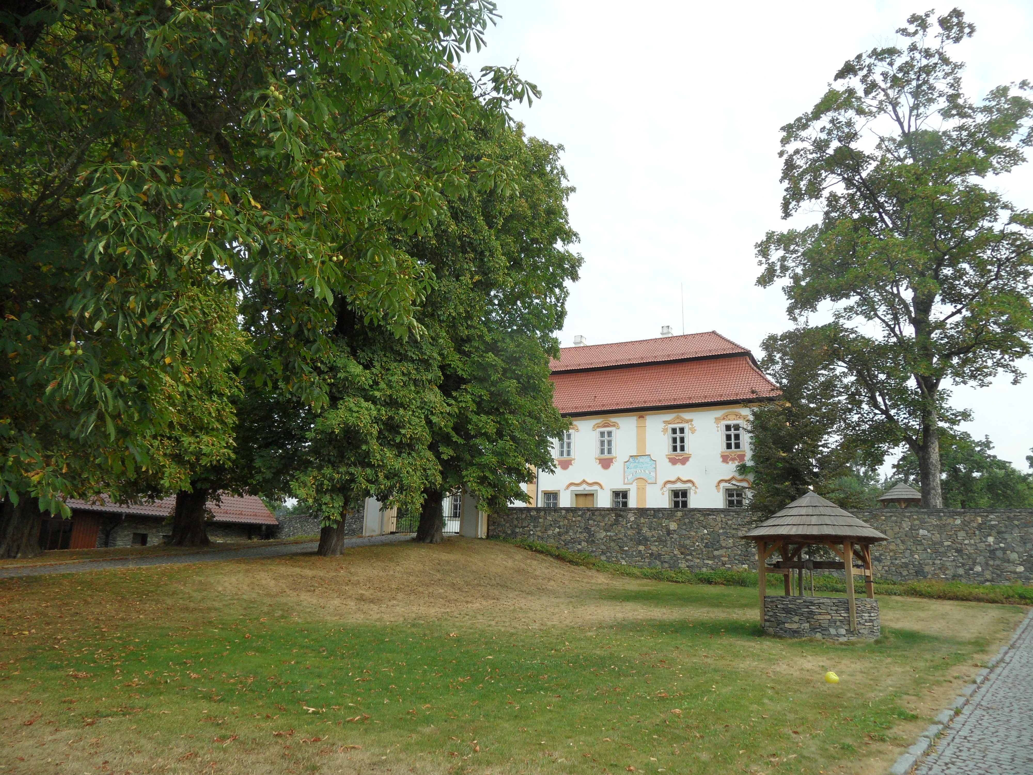 Ostrov Castle B. Premises of the Castle. Kutná Hora District, the Czech Republic.